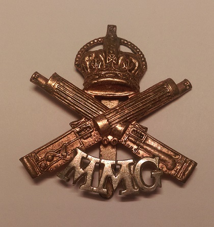 Photo of Motor Machine Gun Service Cap Badge from personal collection